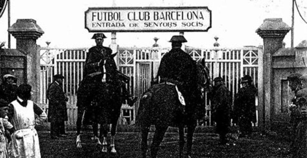 Civil guards at the entrance of the FC Barcelona Socis, at Camp de La Industria